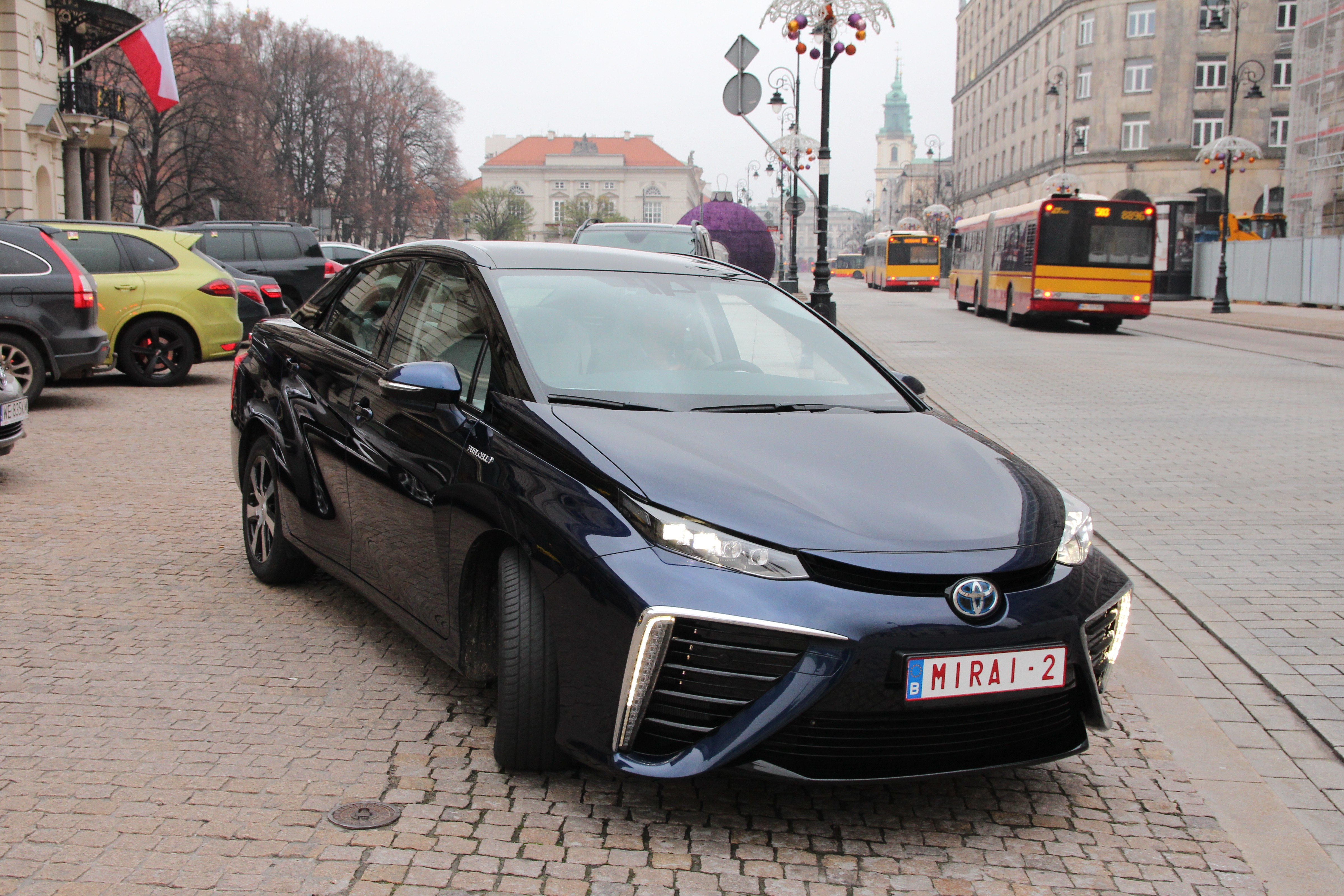 Toyota Mirai during demonstration in Warsaw, Poland, Nov 22 2015